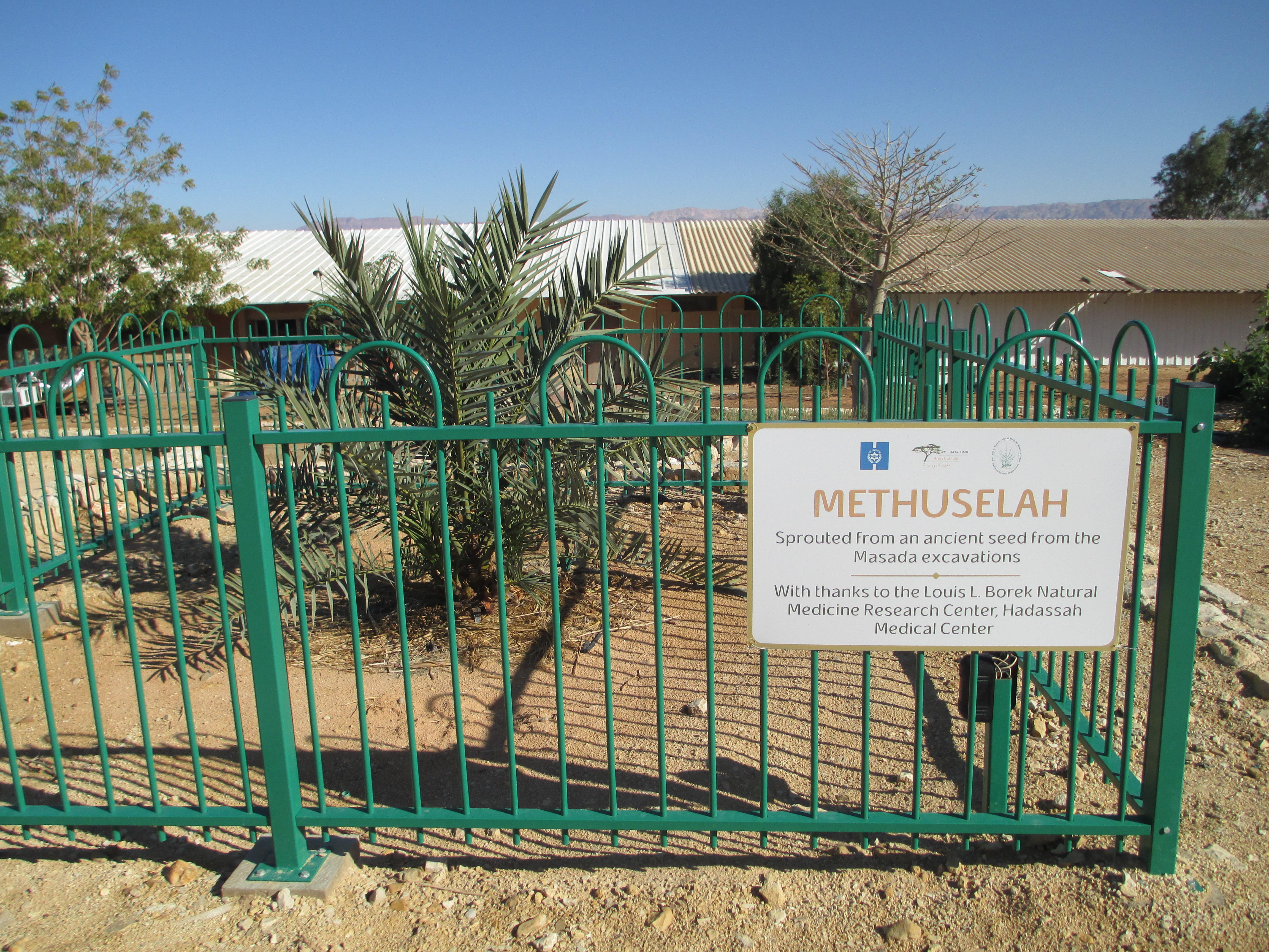 Methuselah date palm from Massada ruines, in kibbutz Ketura